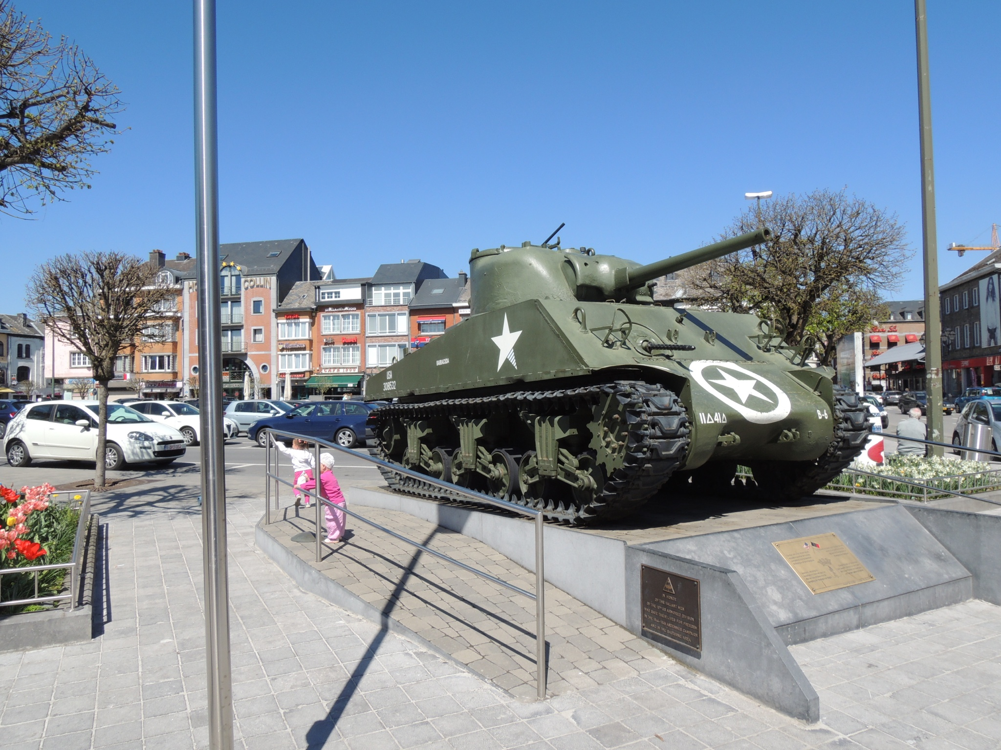 Marketplace Bastogne with Tank